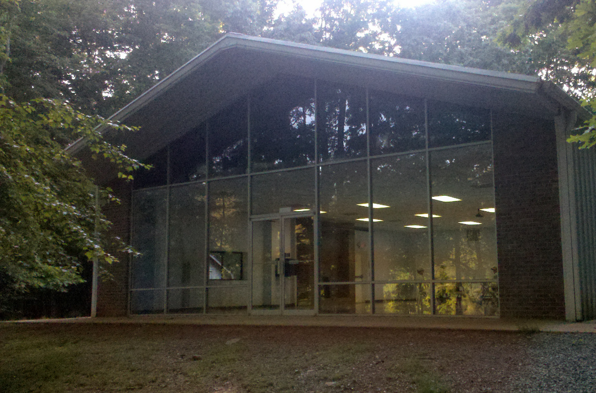 Northwest Park, Chatham County NC, USA, May 2013. Pavilion with lake view.